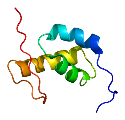 Structure of the MAP3K7IP2 protein. Based on PyMOL rendering of PDB 2dae.